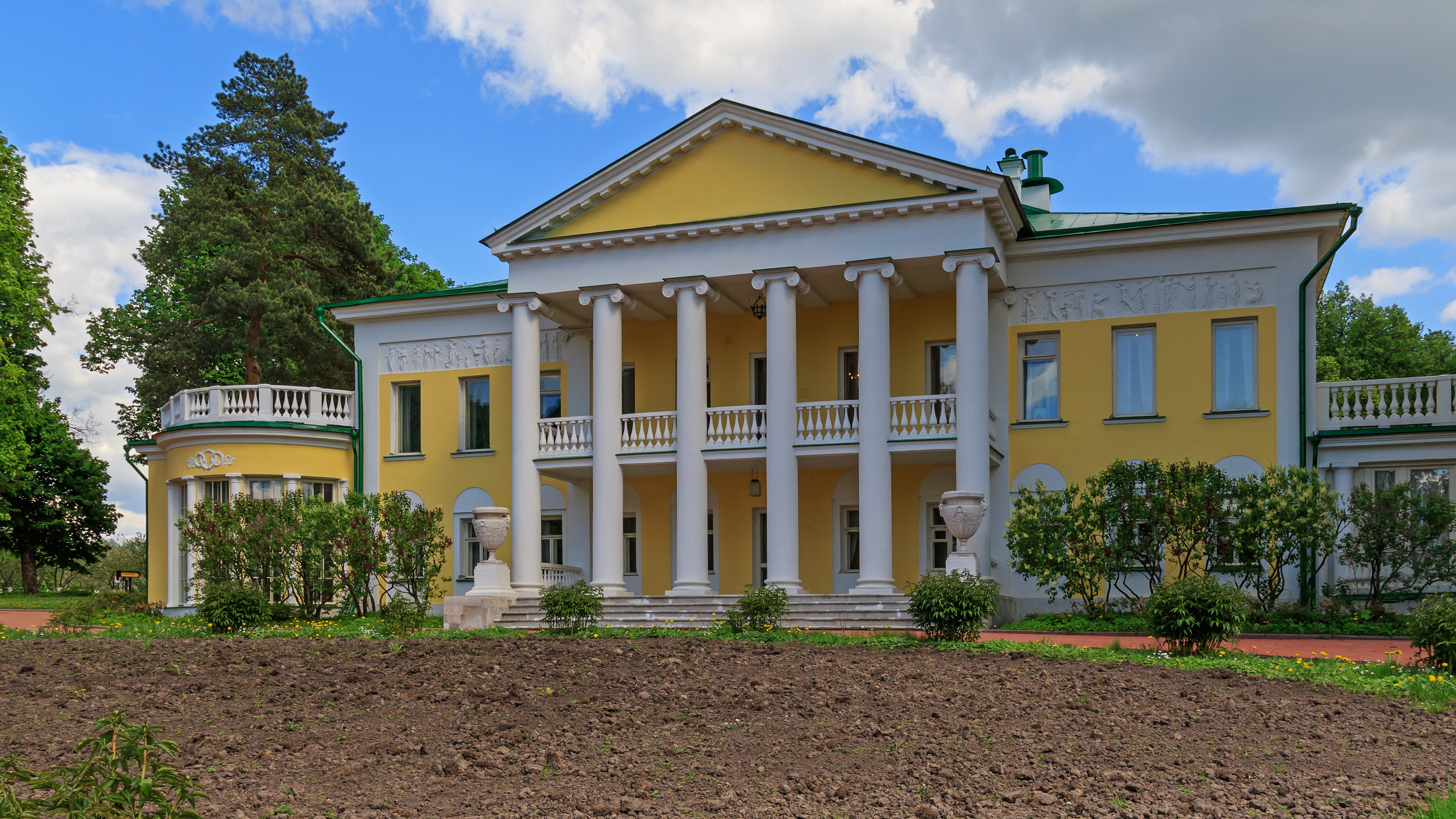 Former Gorki Estate (today Lenin Museum) in Gorki Leninskiye, near Domodedovo, Moscow Oblast (Russia).